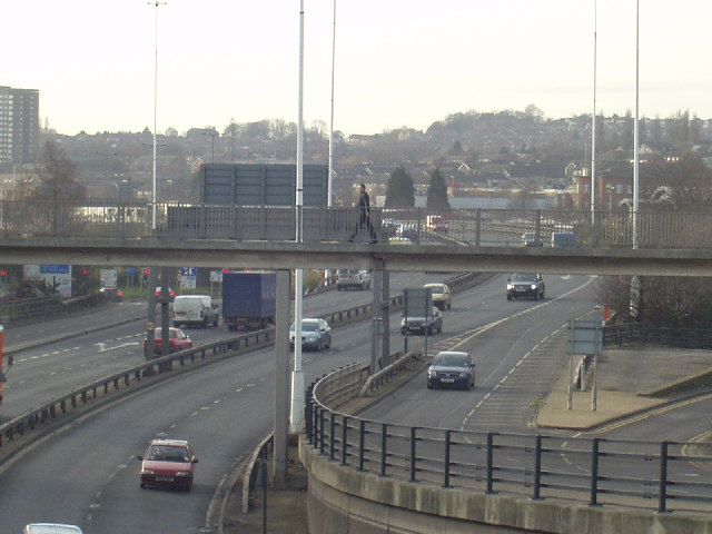 Footbridge over Leeds Inner Ring Road. The footbridge crosses the Inner Ring Road by the International Pool. Taken looking south from the footbridge over the link from Westgate and the Headrow to the Inner Ring Road.